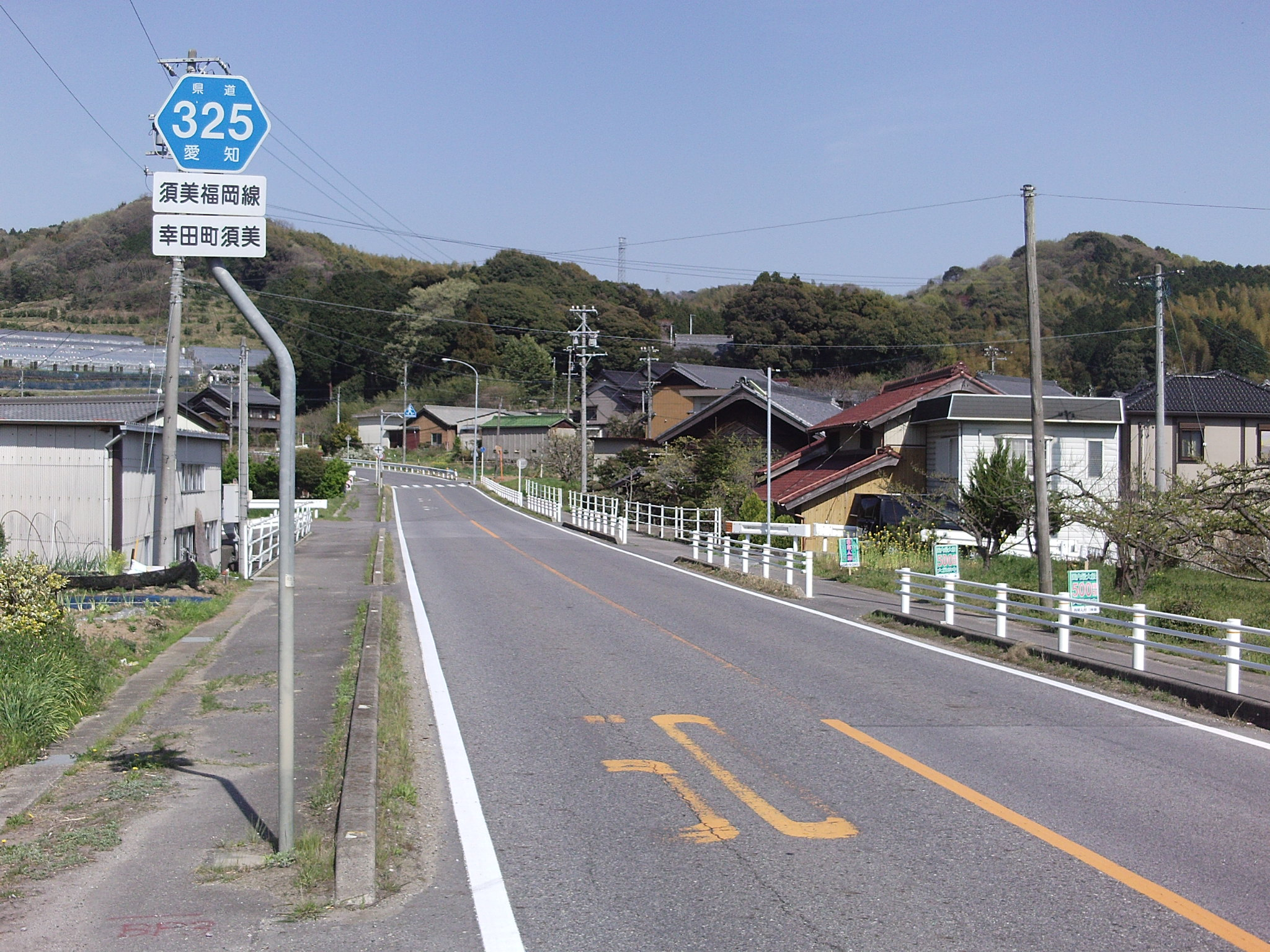 Aichi prefectural road No.325 in Sumi, Kota, Nukata-gun, Aichi.